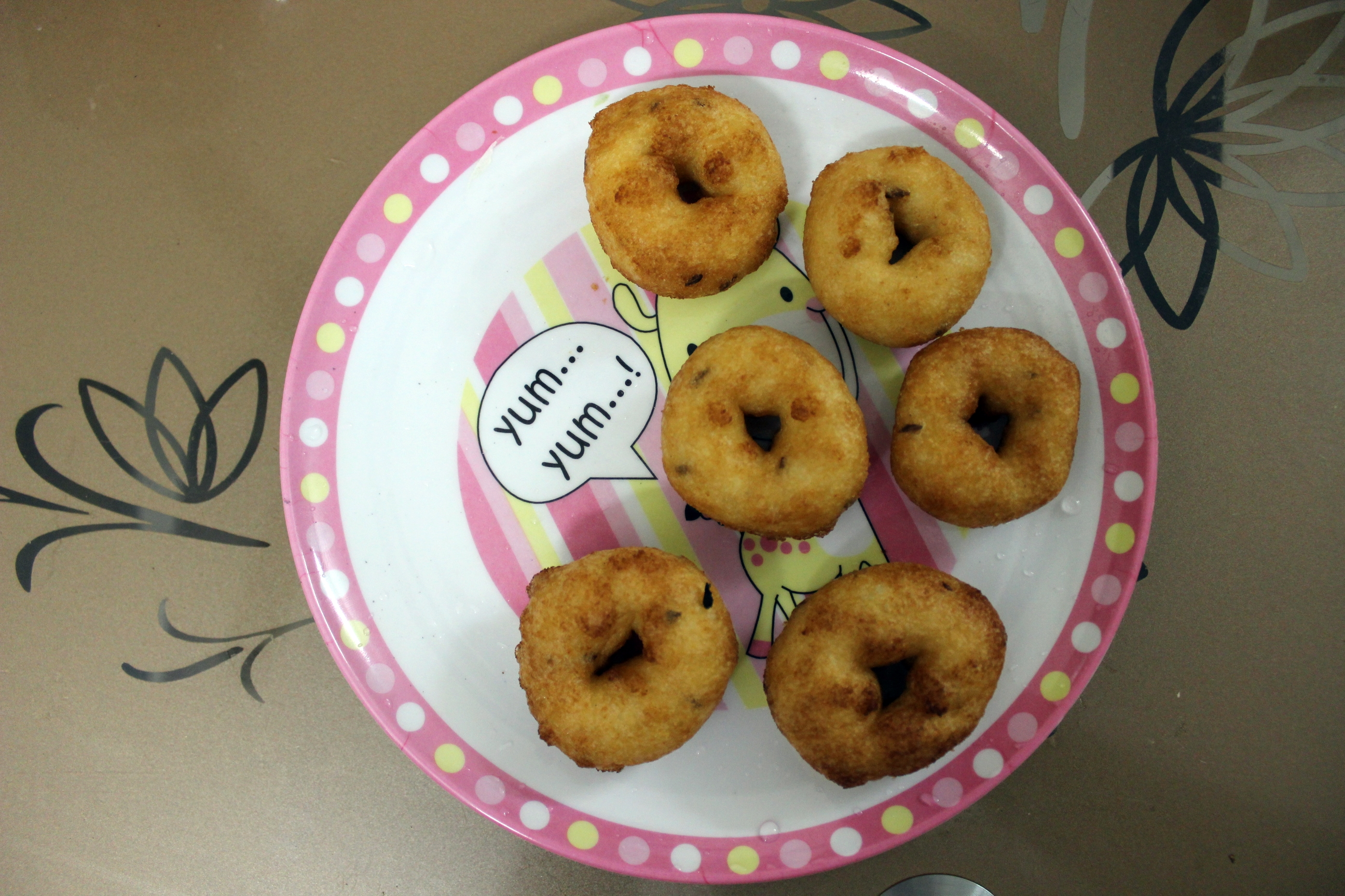 Medhu Vadai is a popular snack in Tamil Nadu served with chutneys.